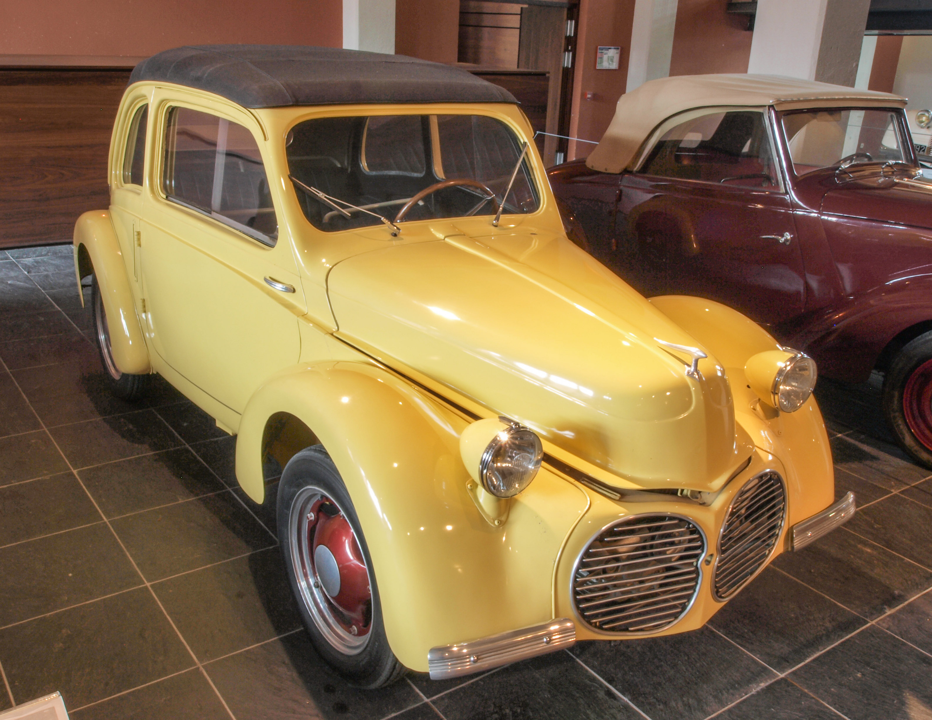 Photographed at the Cité de l’Automobile, France. OLYMPUS DIGITAL CAMERA